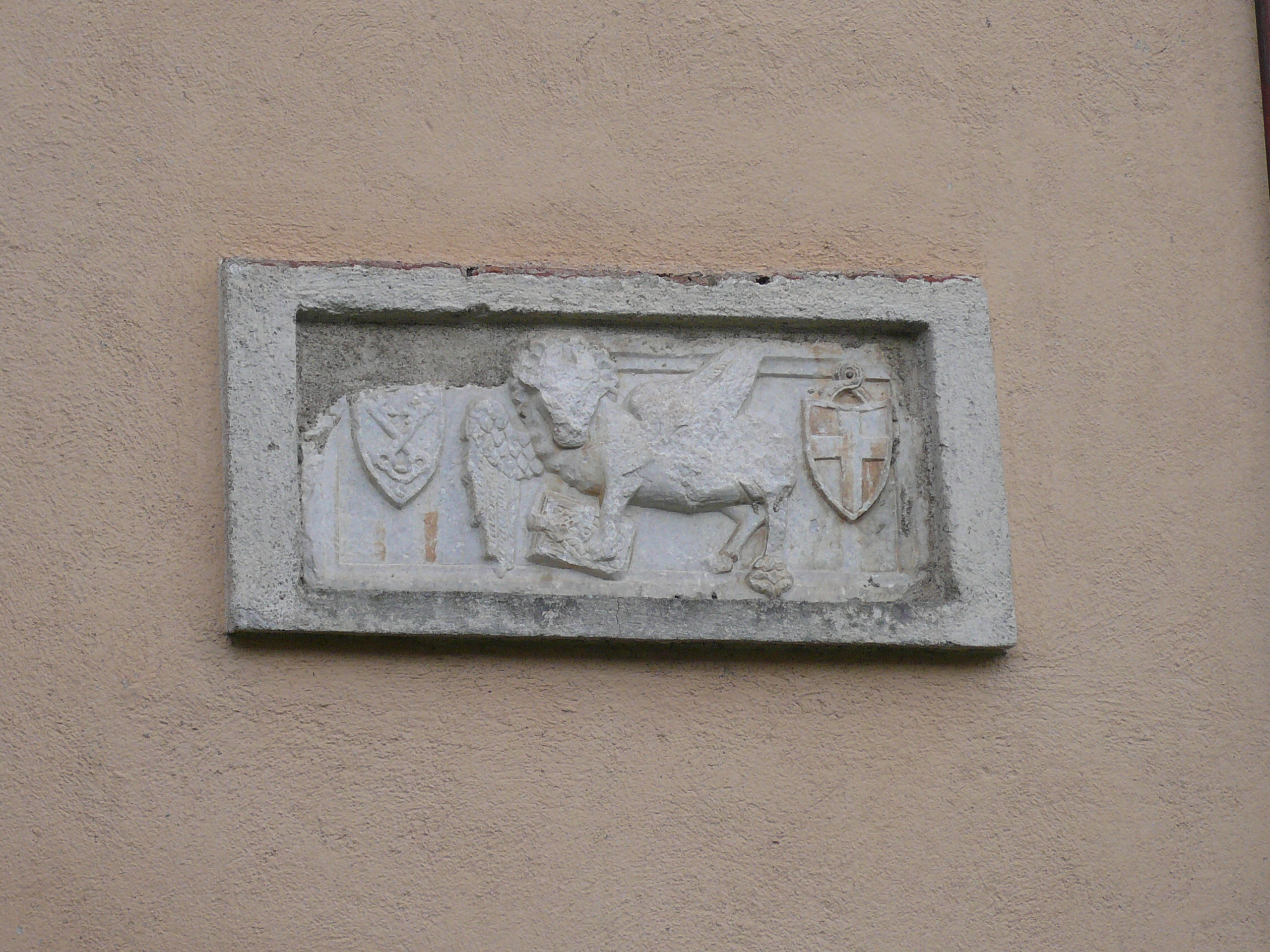 Relief depicting the lion of San Marco.